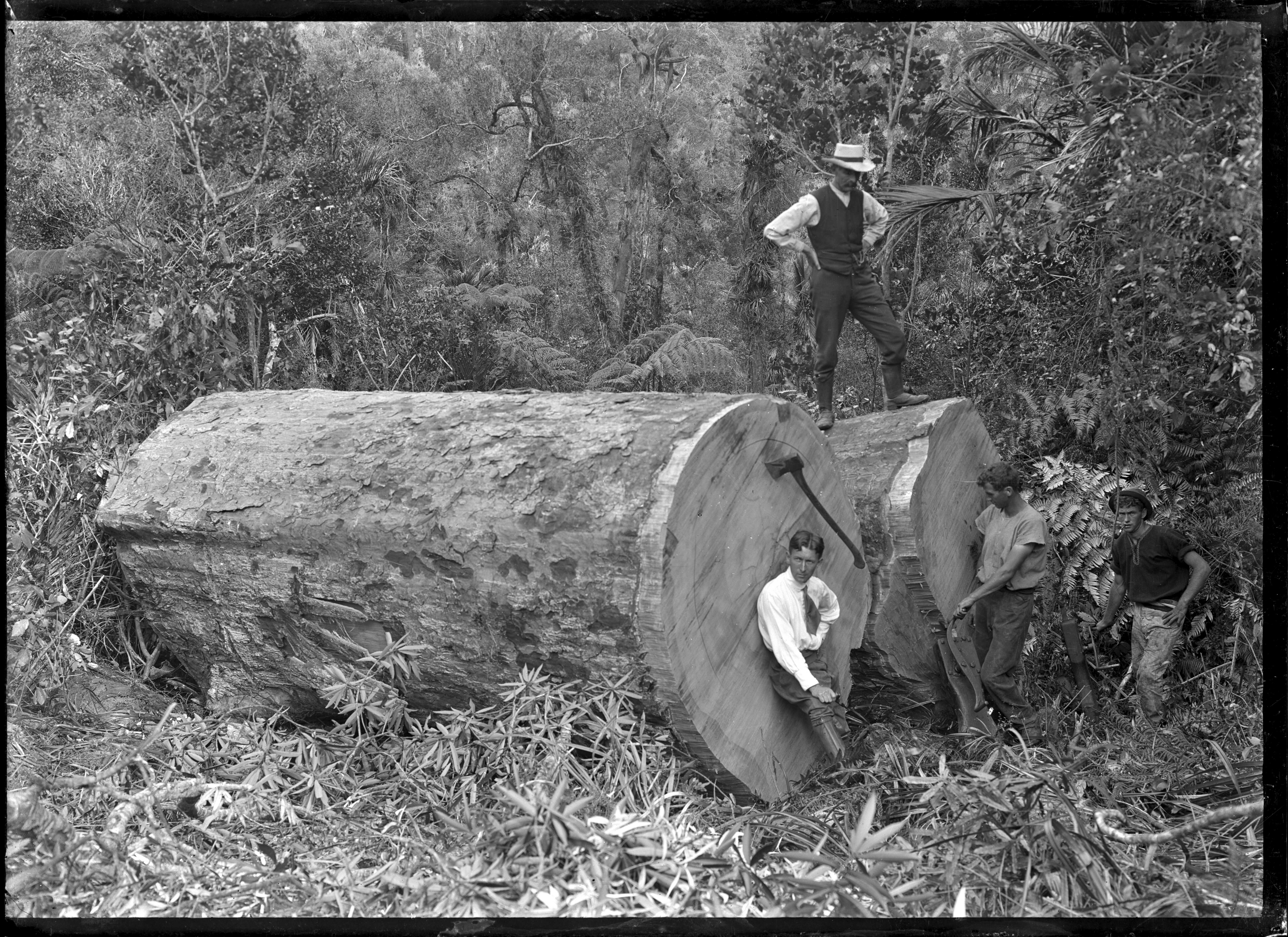 Four men by two kauri logs in the bush at Piha. Taken by Albert Percy Godber, 1915-1916.